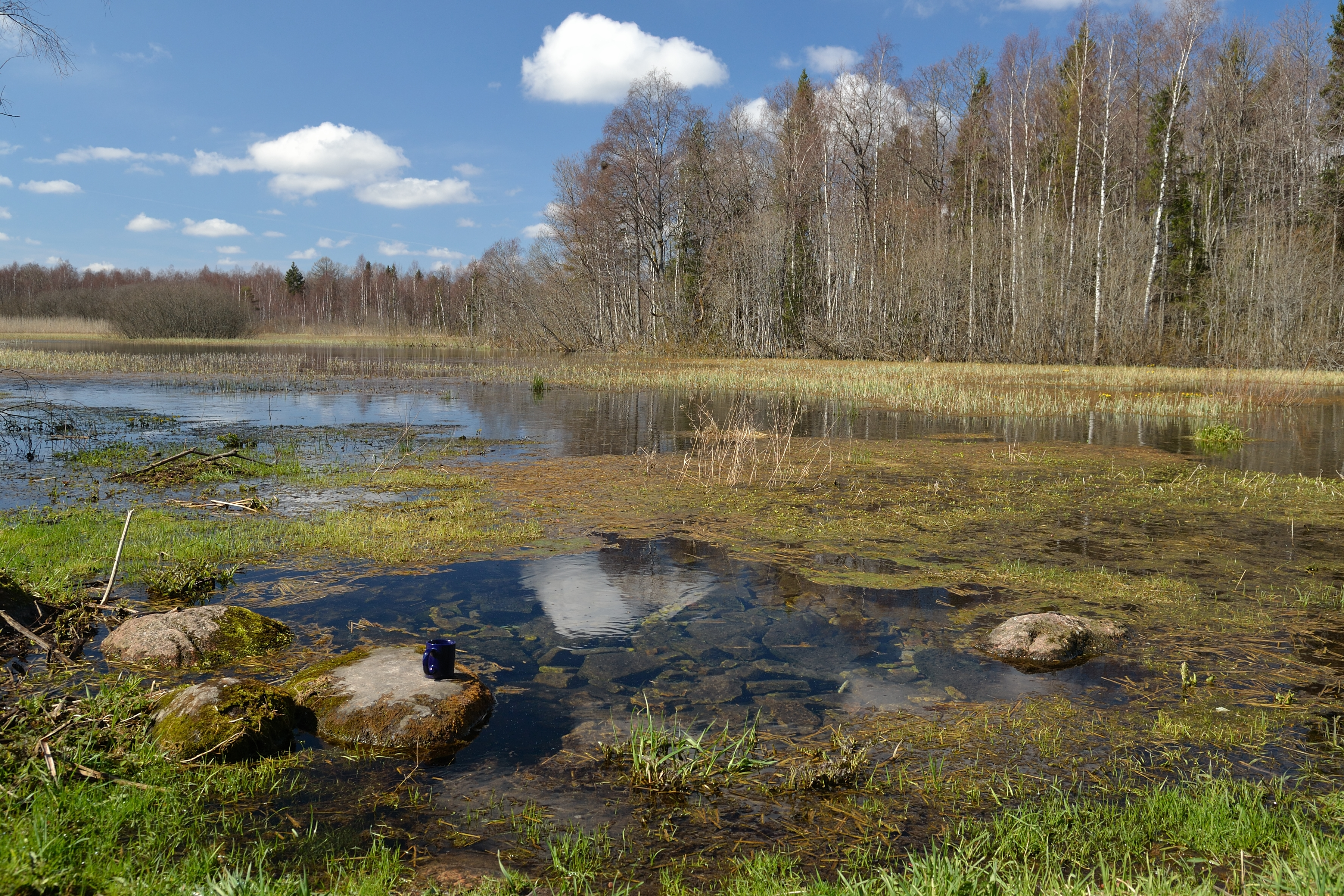 Esna spring lake